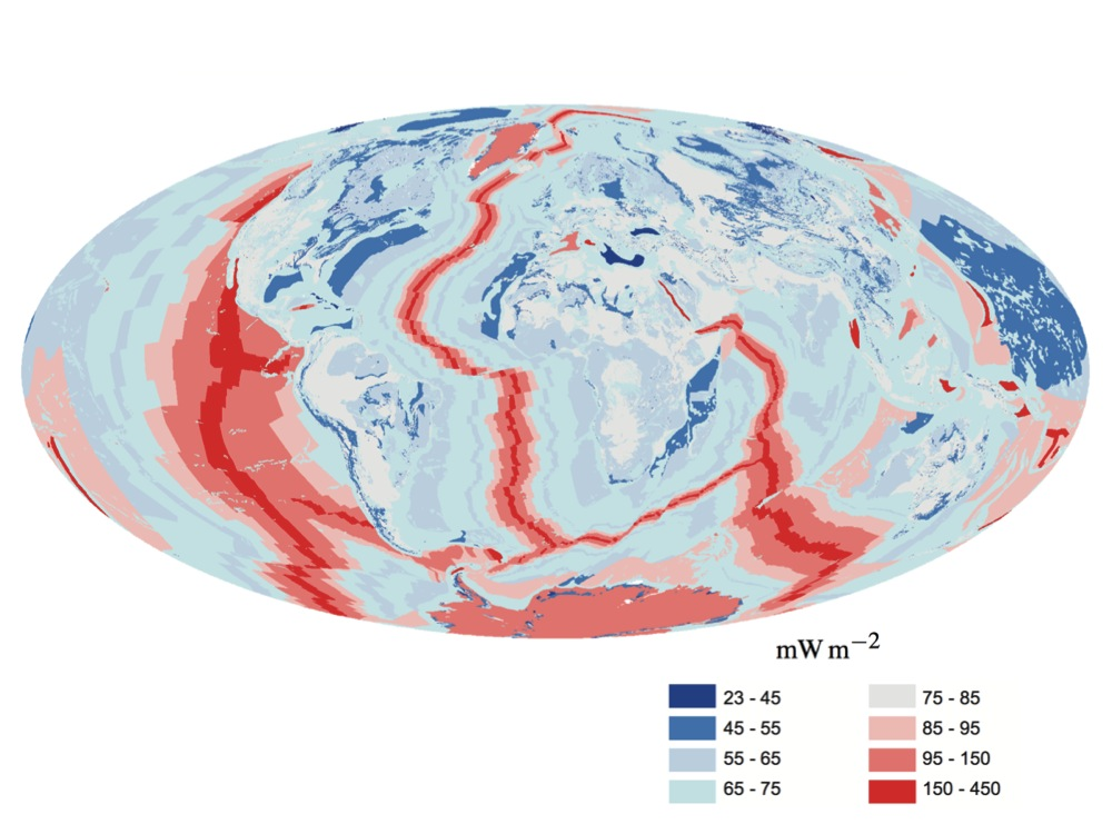 Global map of the flow of heat, in mW/m2, from Earth's interior to the surface. Cropped from the original figure.